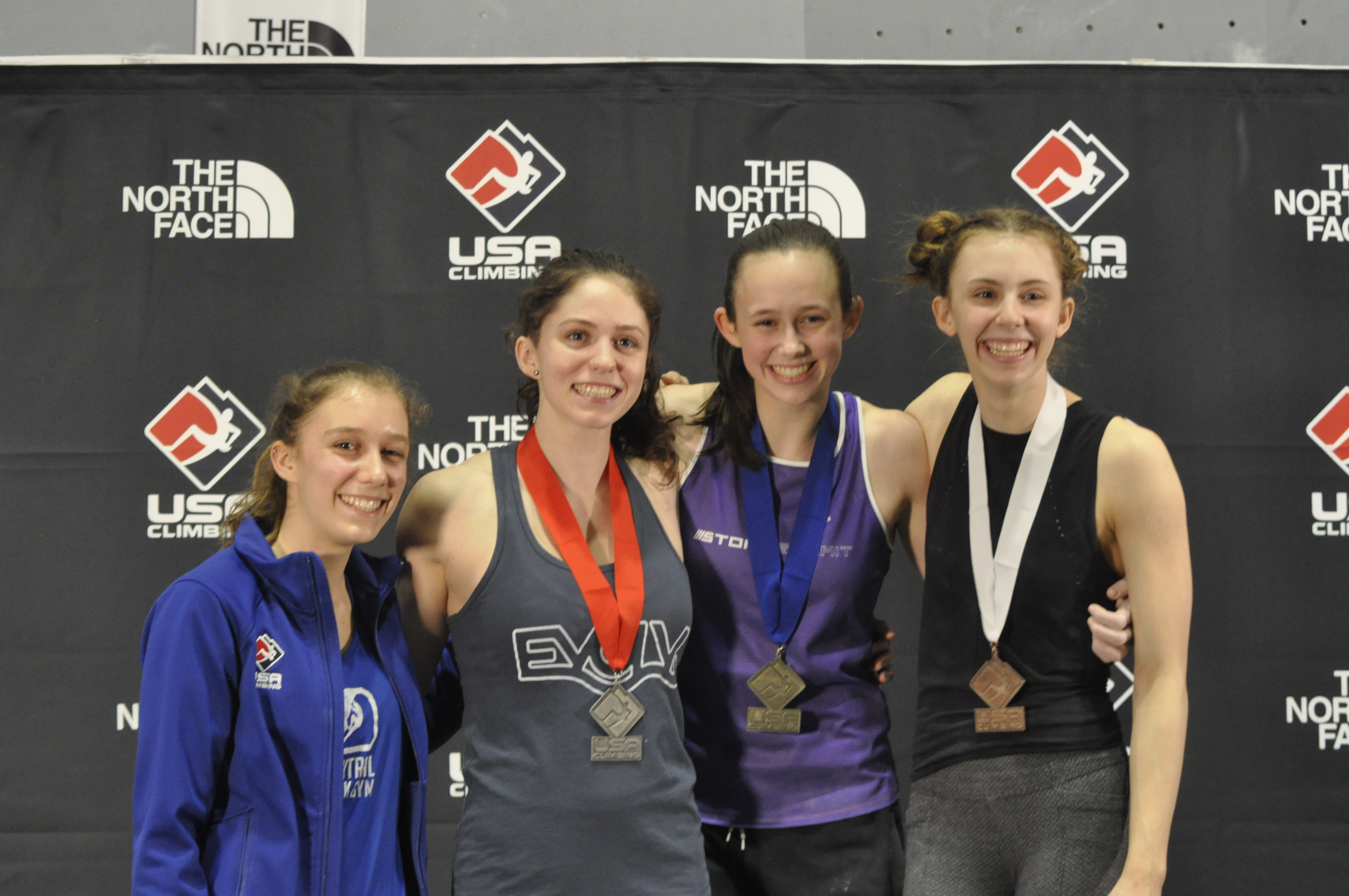 2019 Sport & Speed Open National Championships held on March 8-9, 2019 in Sportrock climbing gym in Alexandria, Virginia. Speed winners during award ceremony.